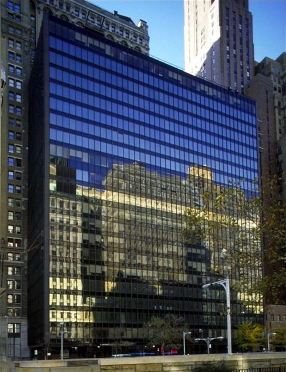 2 Washington Street, Manhattan, New York, viewed from east